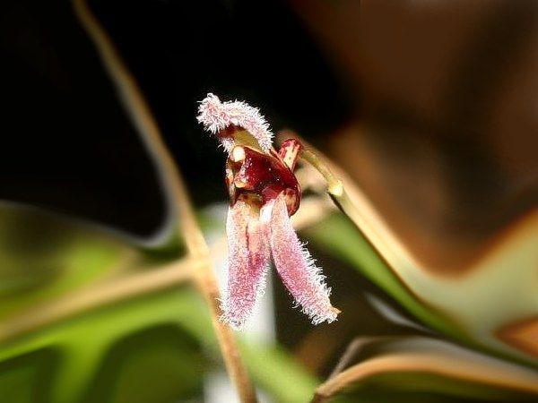 Condylago rodrigoi